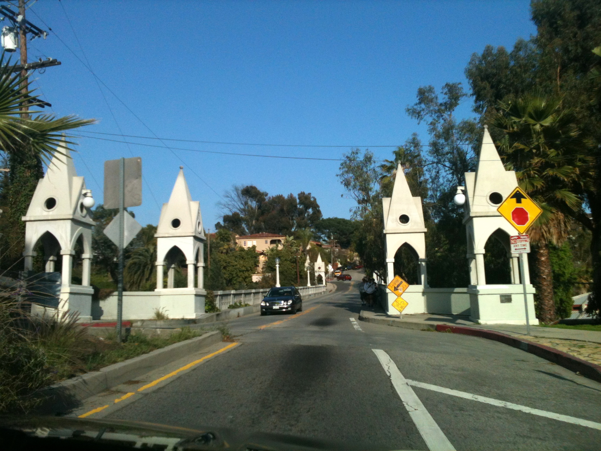 Shakespeare Bridge in the Franklin HIlls in the Los Feliz district in Los Angeles, CA